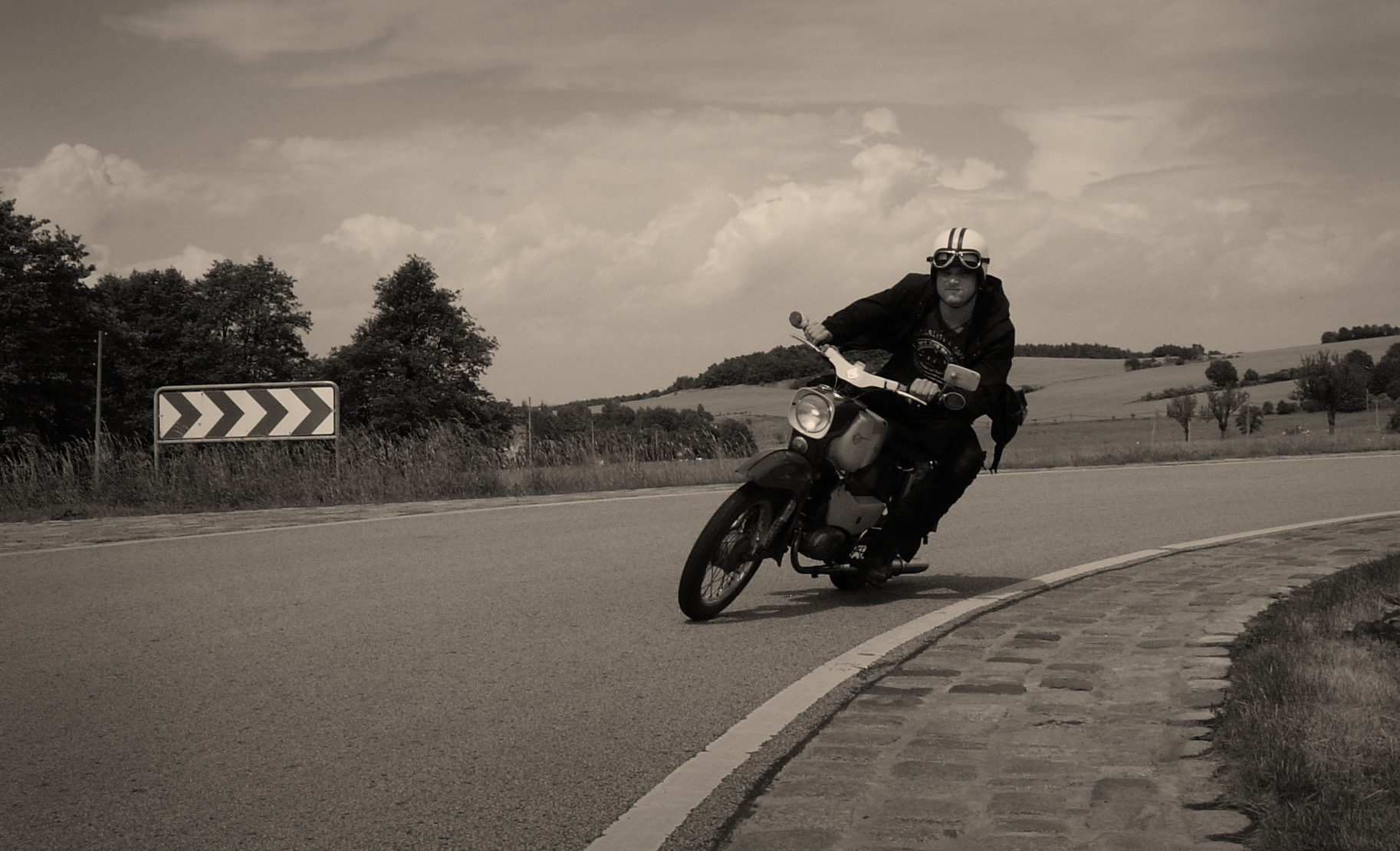 created 2011